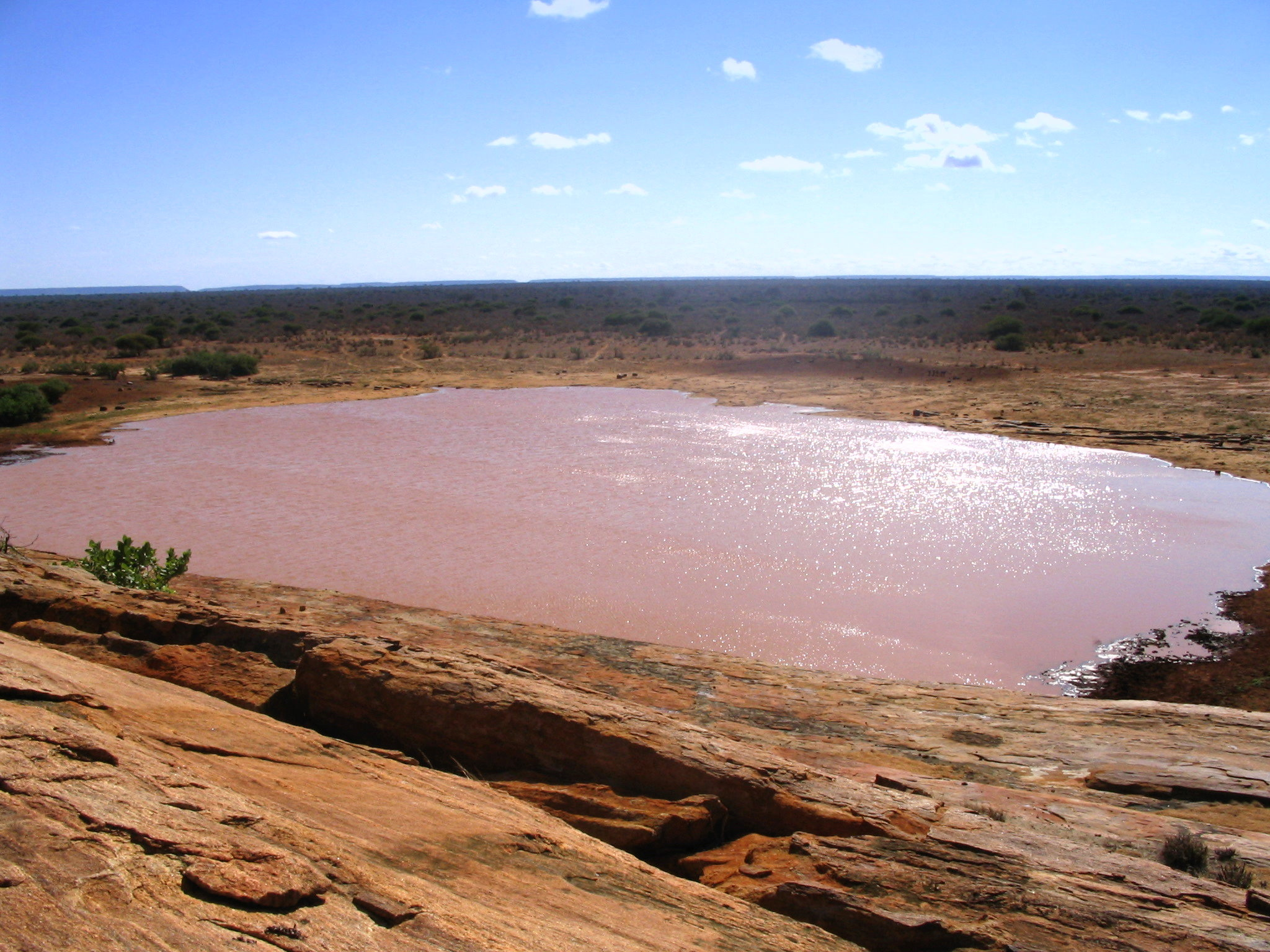 Viewpoint from the top of Mudanda Rock in Tsavo East National Park, Kenya. A lake is shown in the foreground with the surrounding savanna in the distance.